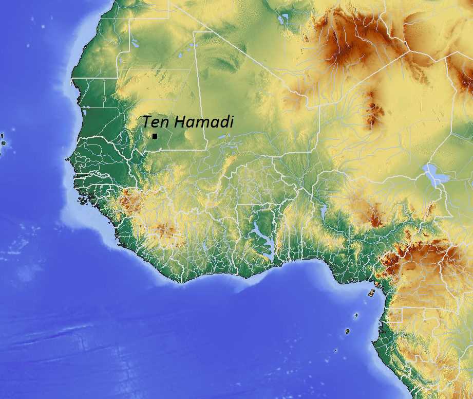 Ten Hamadi , Mauritania relief map